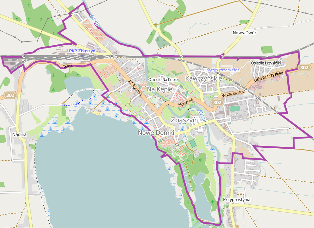 Map of Zbąszyń, Poland This map of Zbąszyń was created from OpenStreetMap project data, collected by the community. This map may be incomplete, and may contain errors. Don't rely solely on it for navigation. Border coordinates52.267415.8758←↕→15.948152.2353